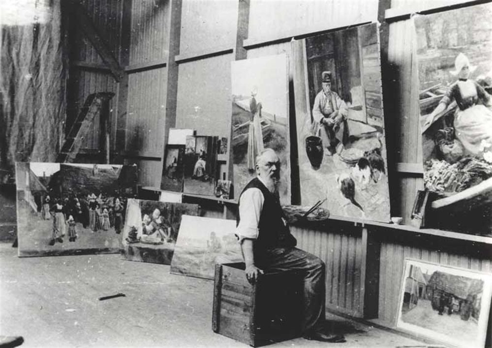 Thaulow in Volendam